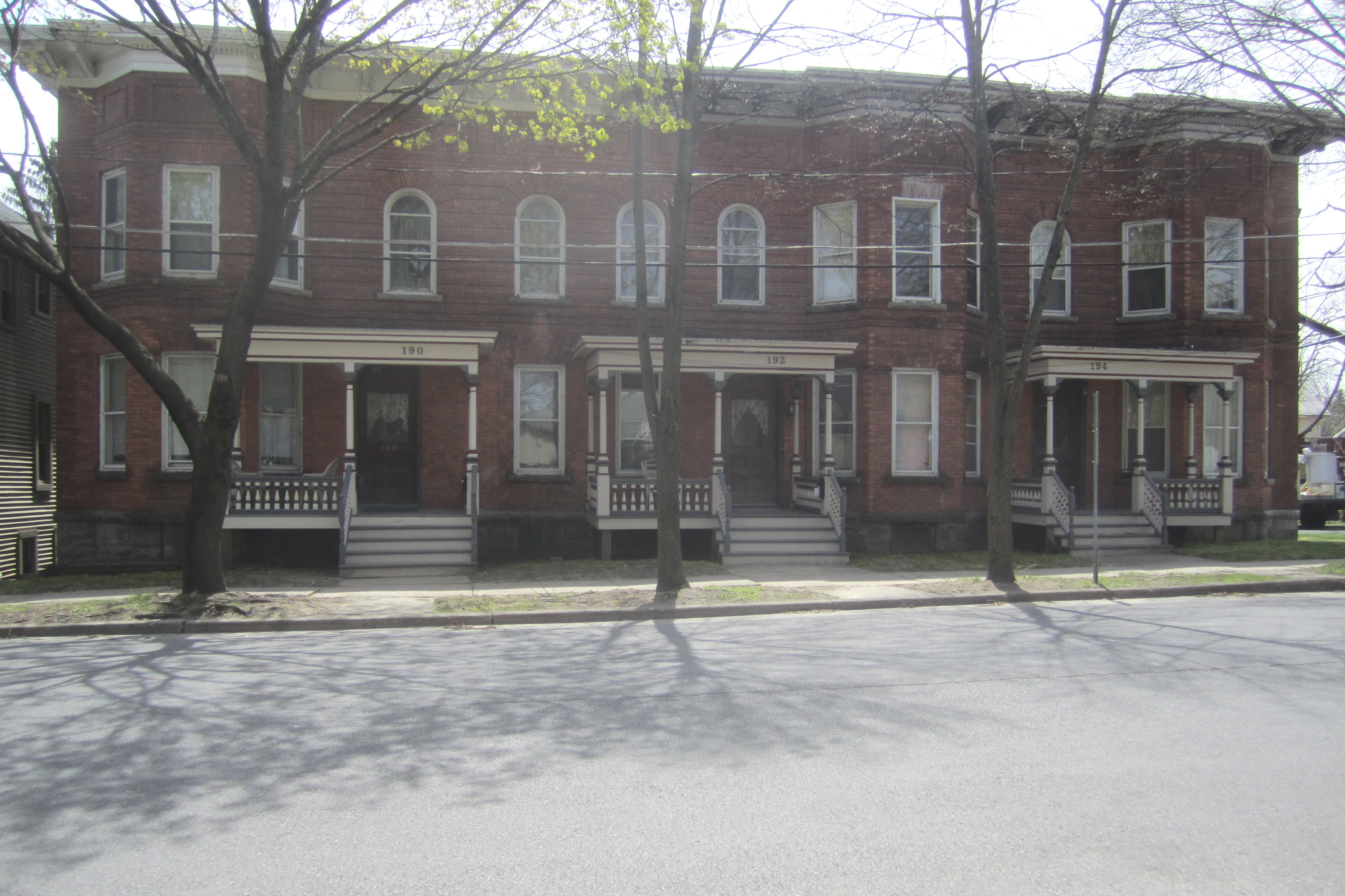 190-194 Grand Ave.- Designed by R. Newton Brezee for M.F. Meehan. Rental housing (1896) Captioned As { }